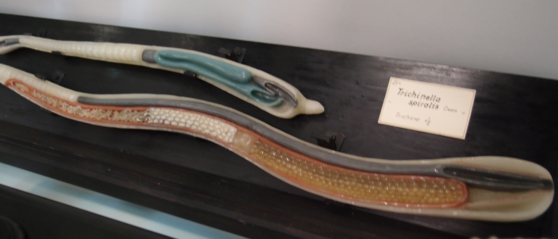 Model from the zoological collection Rostock, Germany. see also for more information on the models